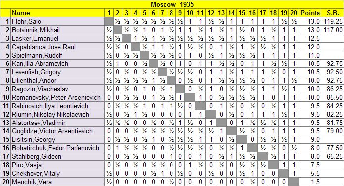 chess tournament Moscow_1935